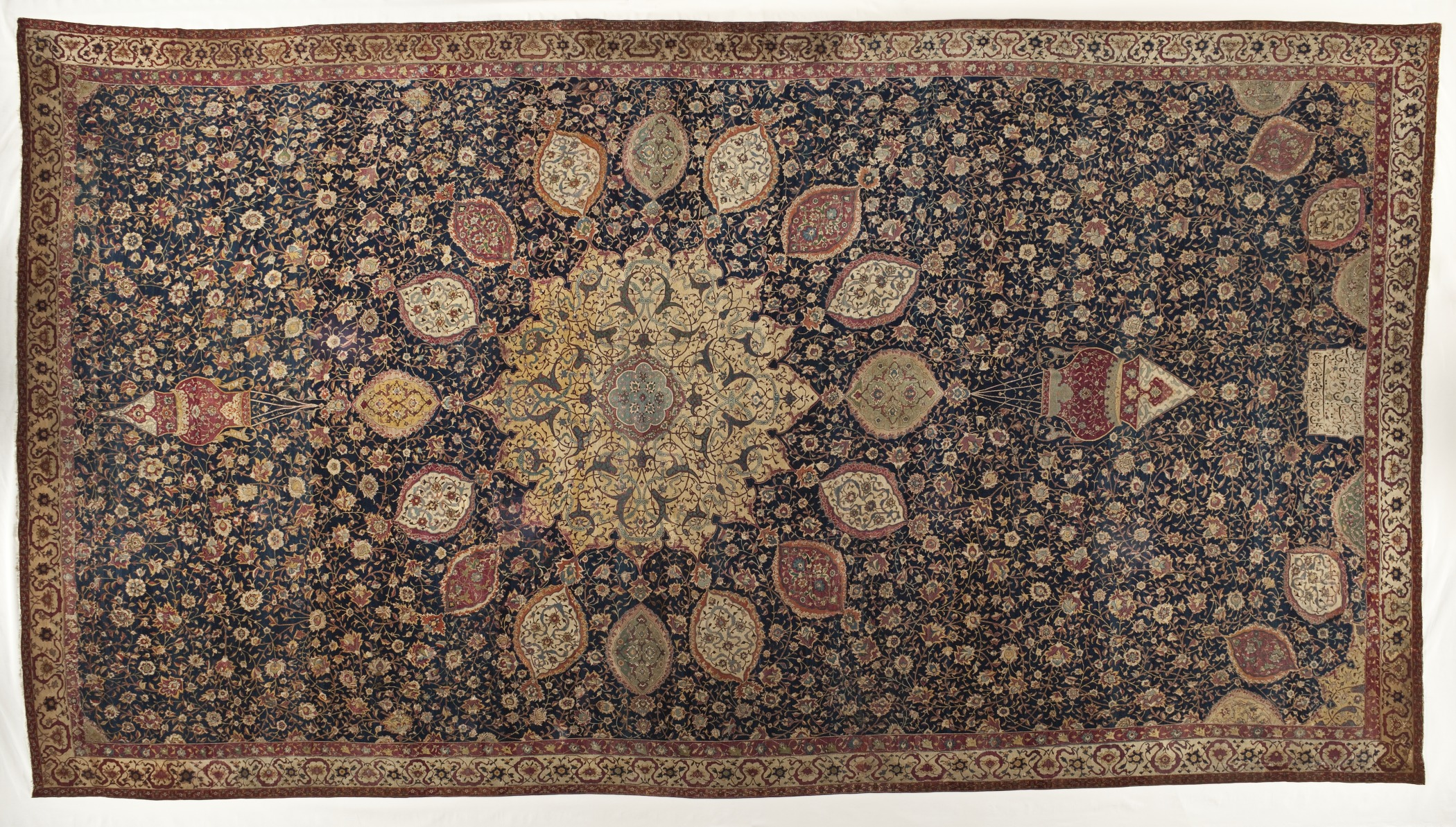 Iran, Tabriz, Islamic; Safavid, dated 1539-40 (A.H. 946) Textiles; carpets Knotted pile in wool on a silk foundation Gift of J. Paul Getty (53.50.2) Costume and Textiles